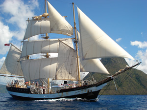 TS Pelican under sail in 2011.